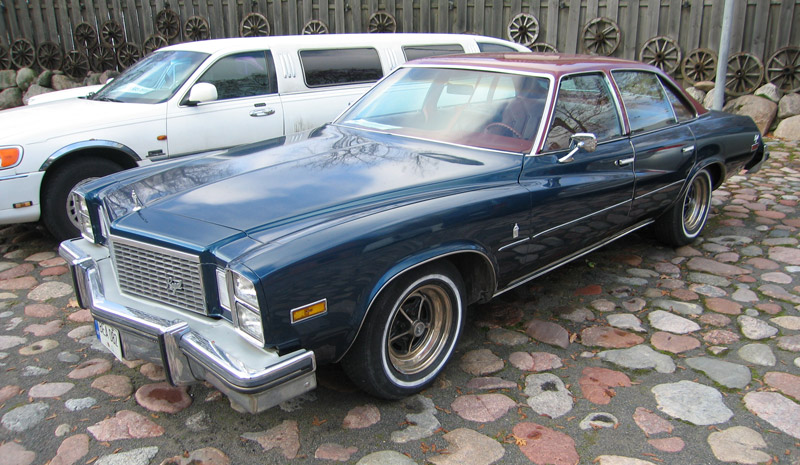 Buick Regal (A-body)